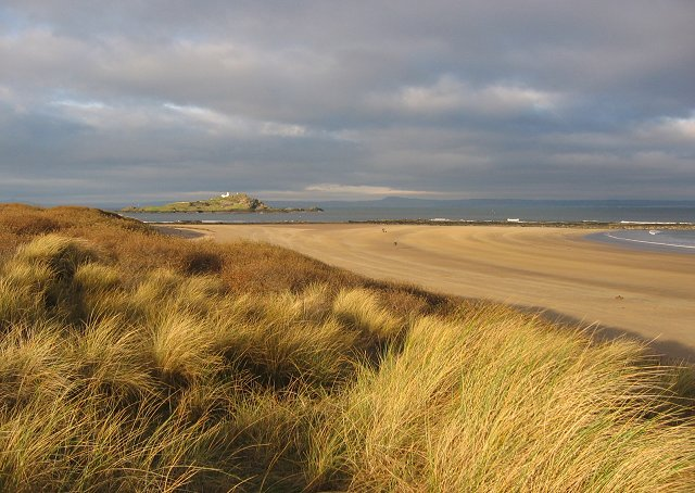 Broad Sands. Beach and dunes near of North Berwick. View north west along the beach towards Fidra.